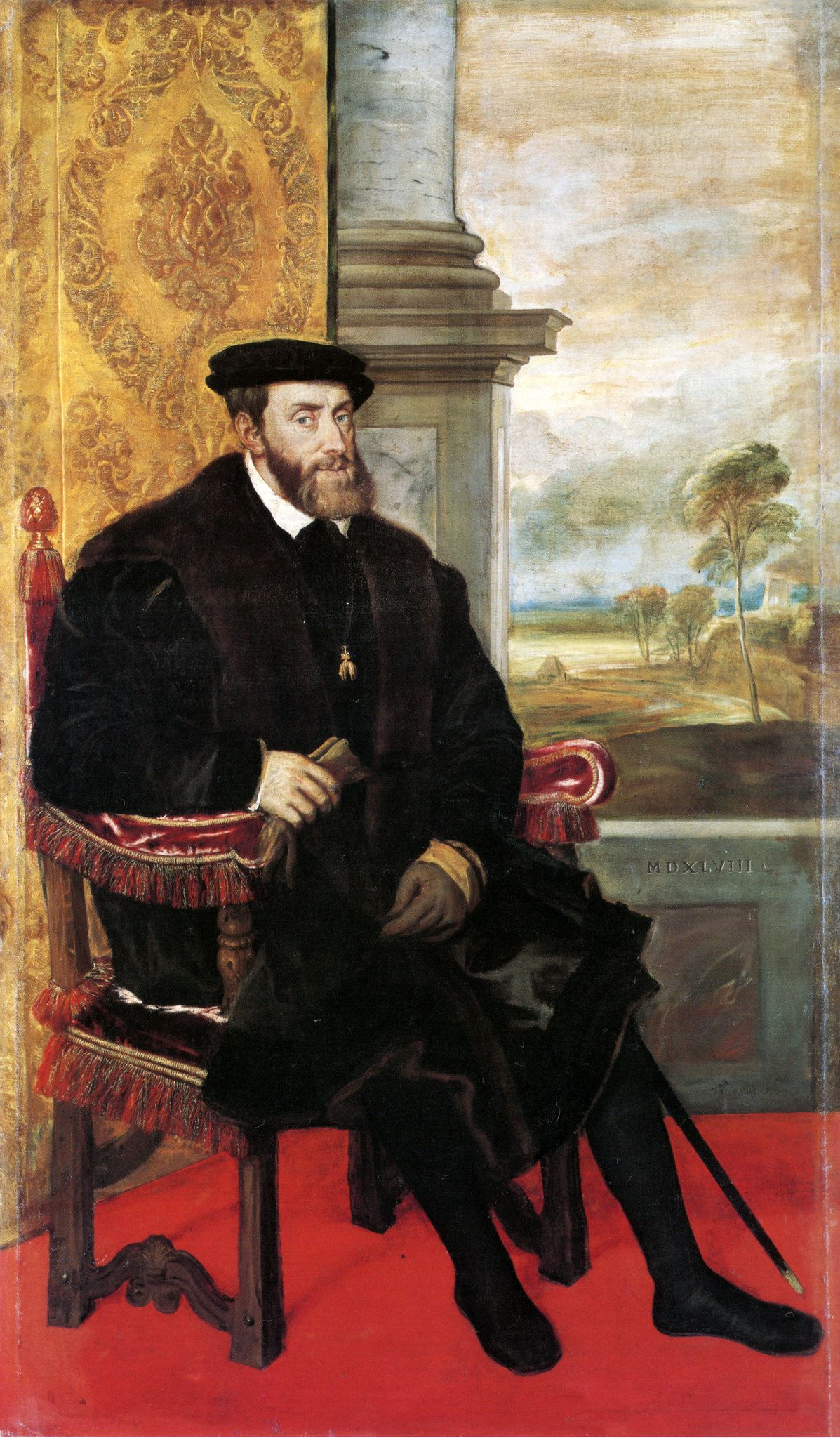 Portrait of Charles V seated (by Titian).